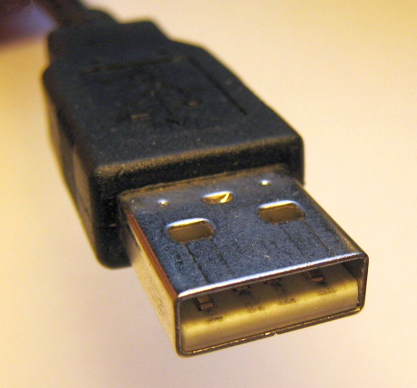 An USB male plug type A.